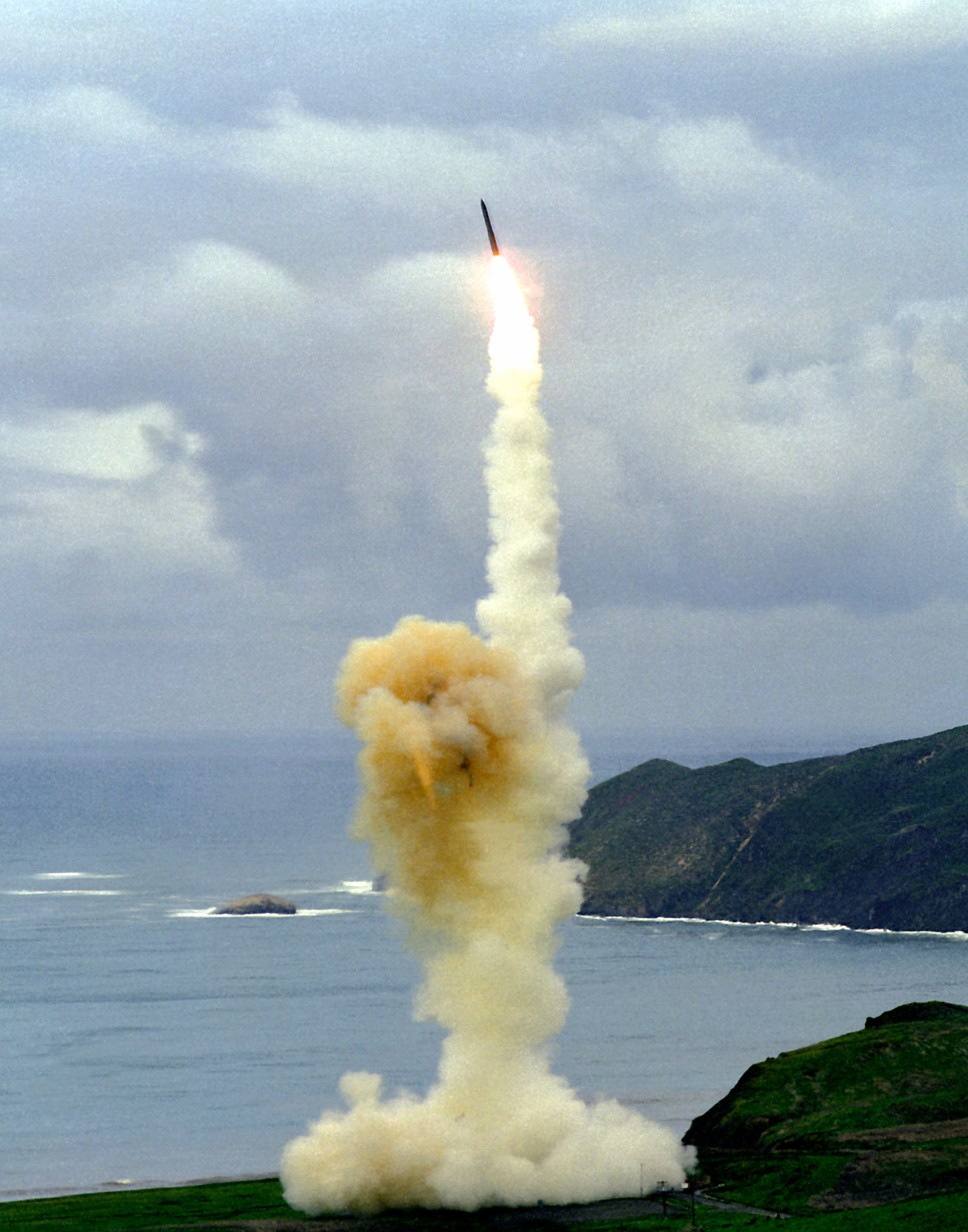 Minuteman 3 missile launch Hi-res version from: DOD Defense Visual Information Center Caption of the photo was: LGM-30 Minuteman III VANDENBERG AIR FORCE BASE, Calif. -- An LGM-30 Minuteman III missile soars in the air after a test launch. The Minuteman is a strategic weapon system using a ballistic missile of intercontinental range. (U.S. Air Force photo) Updated source URL: Direct link: Original filename: 030813-F-8888U-005.JPG